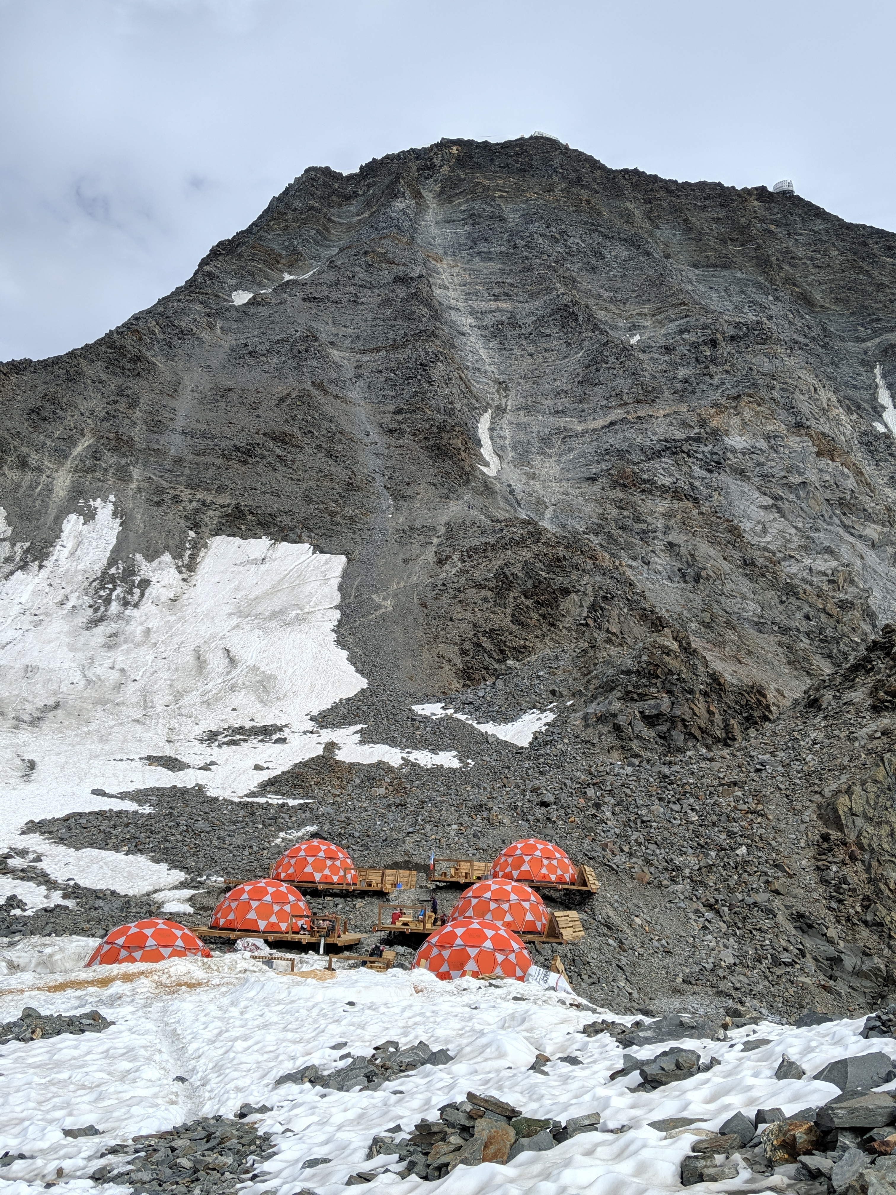 The Camp de Basse at the Tête Rousse Hut with the Gouter hut just visible on the ridgeline..